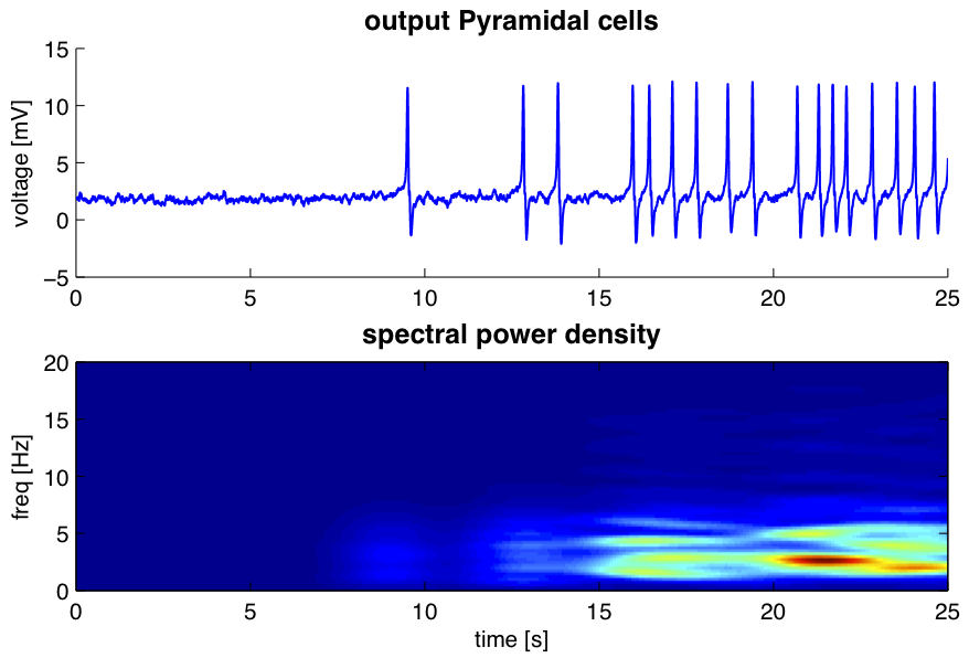 Simulation of a neural mass model showing the output of the Pyramidal cells while the gain parameter is linearly increased. The increase in gain results in the occurrence of network spikes, which become more frequent and change into oscillatory activity at about 3 Hz. This simulations models the onset of seizure activity (Wendling et al, 2000, Biol Cybern 83). Top panel shows the output as a function of time, while the bottom panel shows a time-frequency presentation of power spectral density.